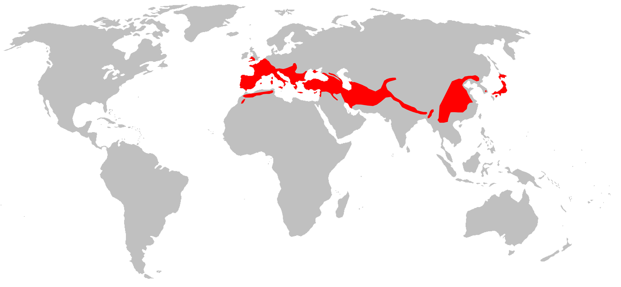 Rhinolophus ferrumequinum range map.